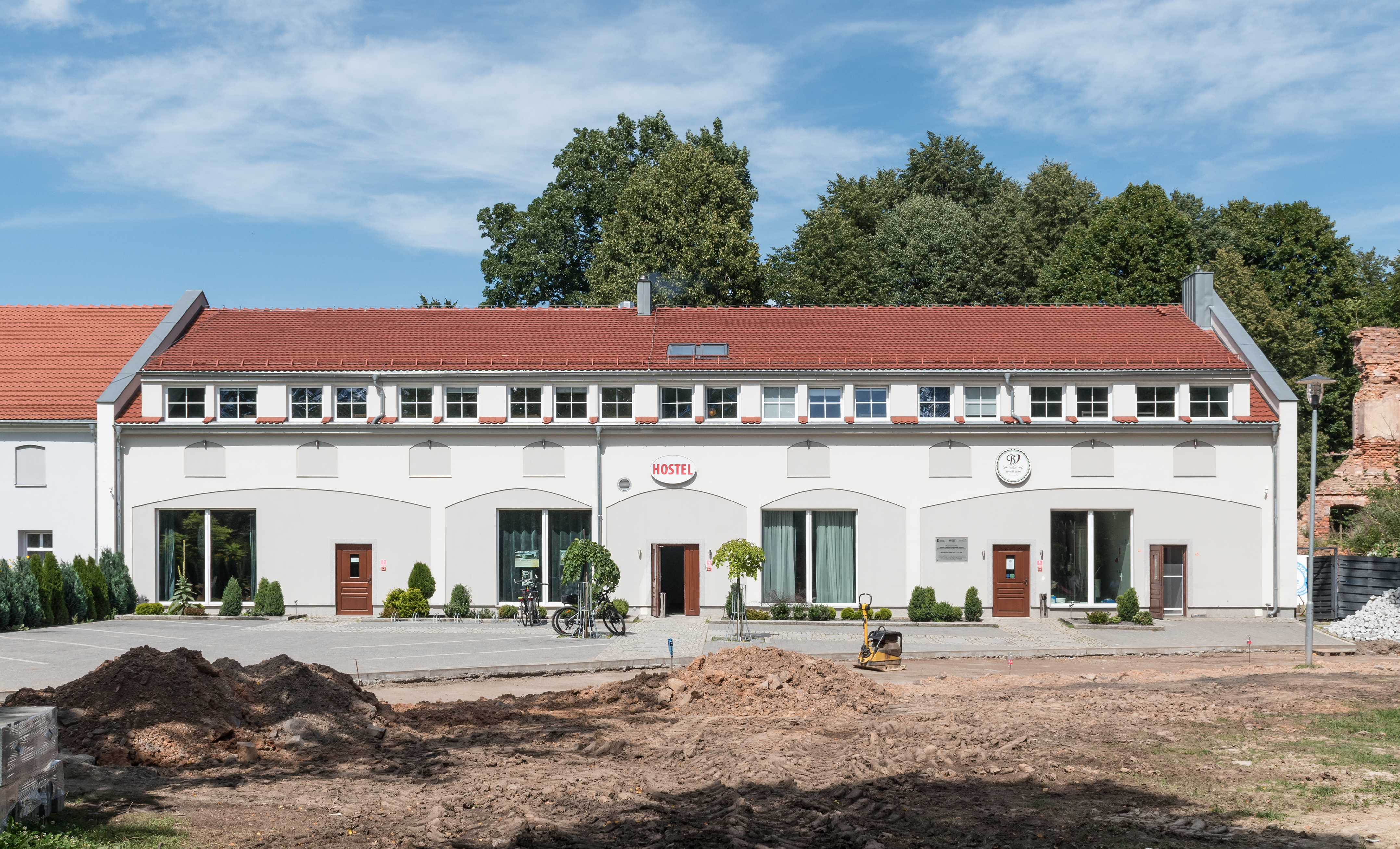 Hostel and Jedlinka Brevery in Jedlina-Zdrój Wikidata has entry Q30082294 with data related to this item.